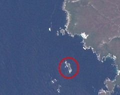 This image (Landsat 7) shows the West Pyramid island, off the south-west coast of the island Tasmania, Australia. Red circle added by User:Wurfzoll.